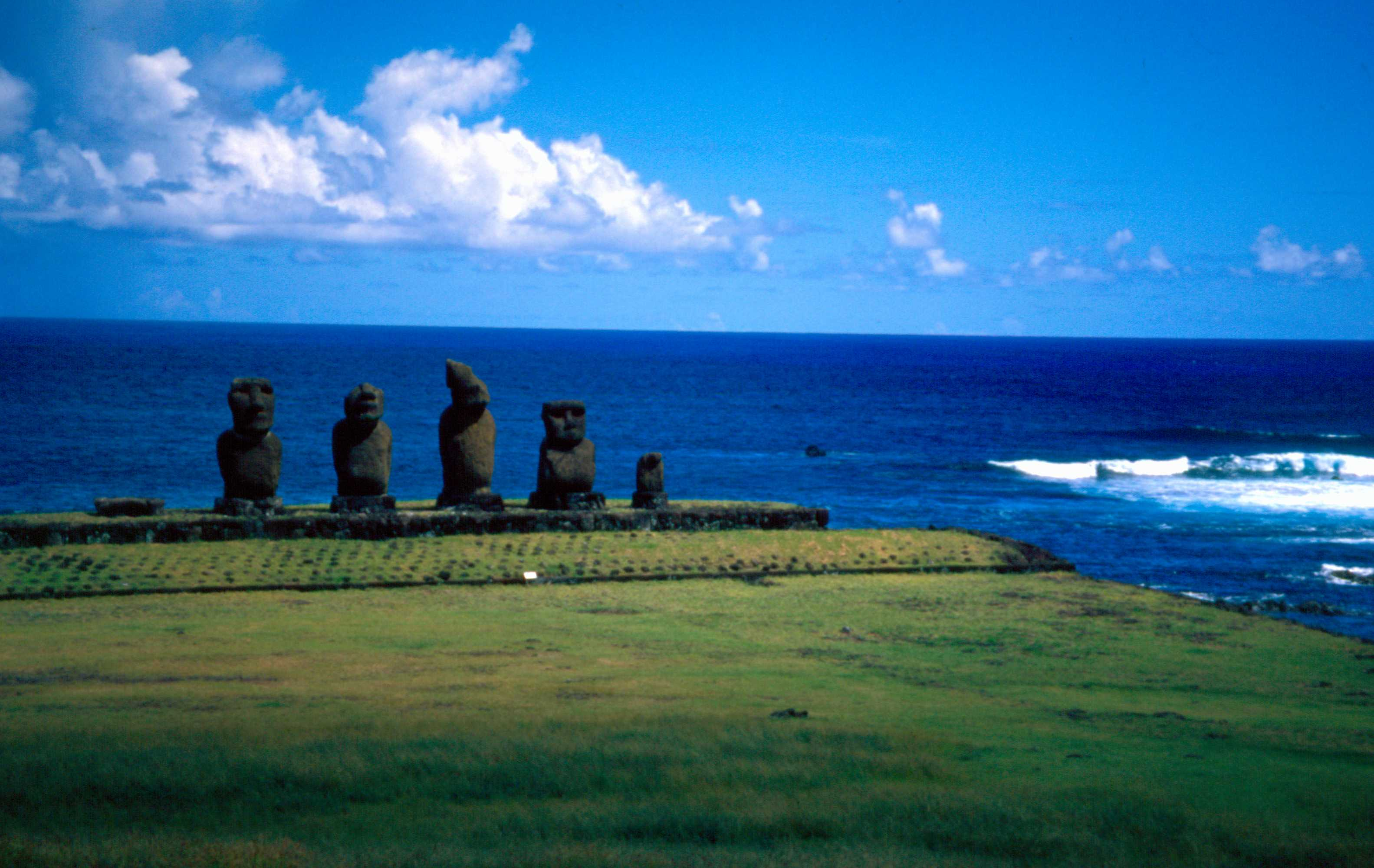 Ahu Tahiri, Rapa Nui (Easter Island)